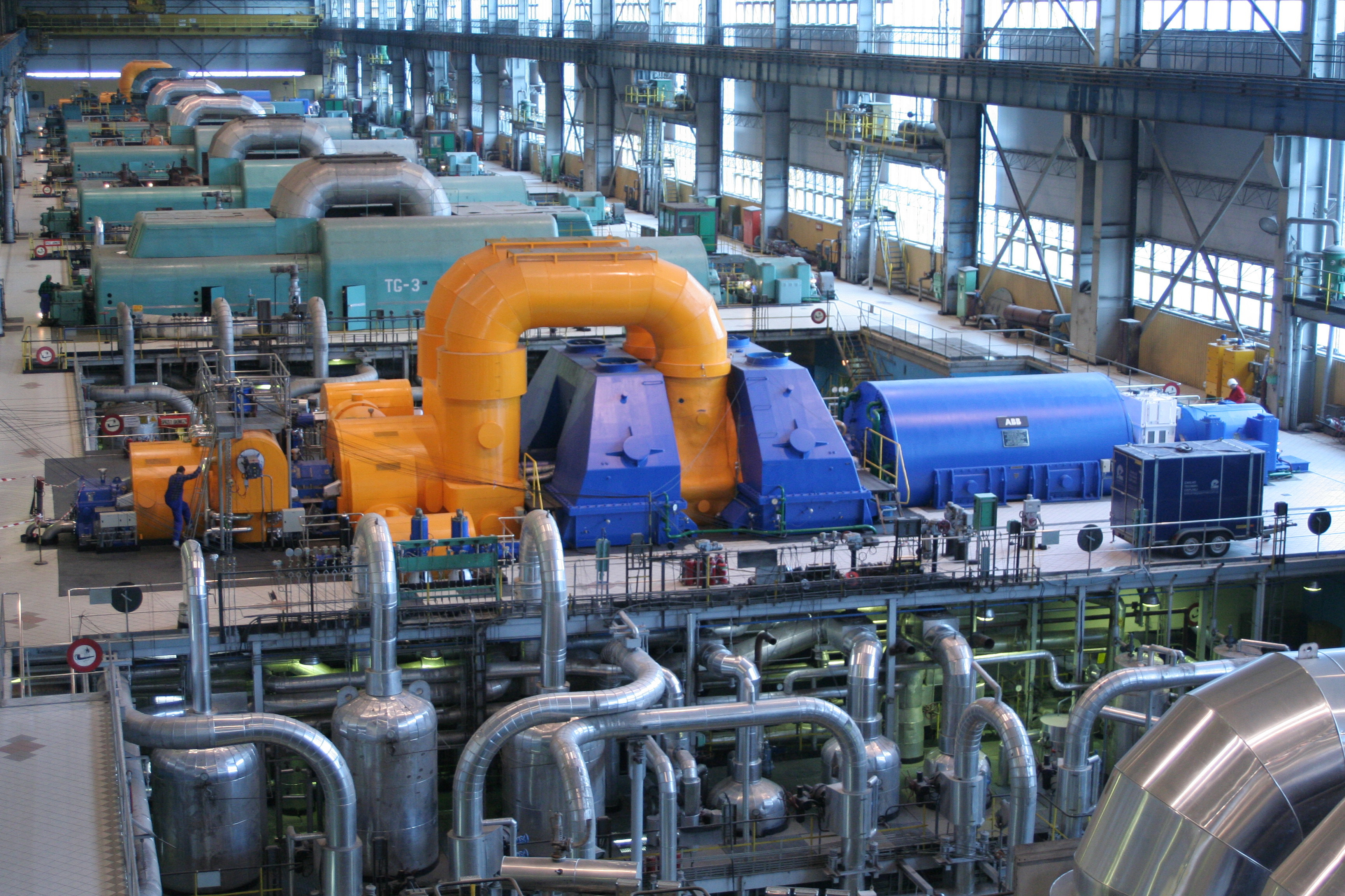 Dolna Odra Power Plant, Poland